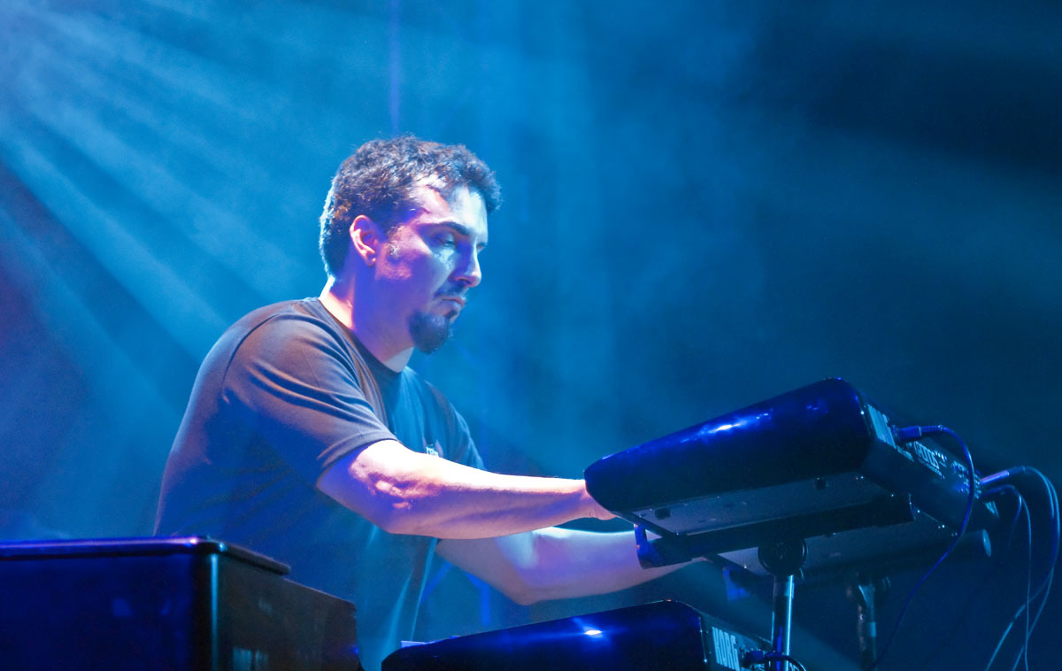 Derek Sherininan performing with Mike Portnoy, Billy Sheehan and Tony MacAlpine at De Boerderij, Zoetermeer, The Netherlands (Oct. 21., 2012)